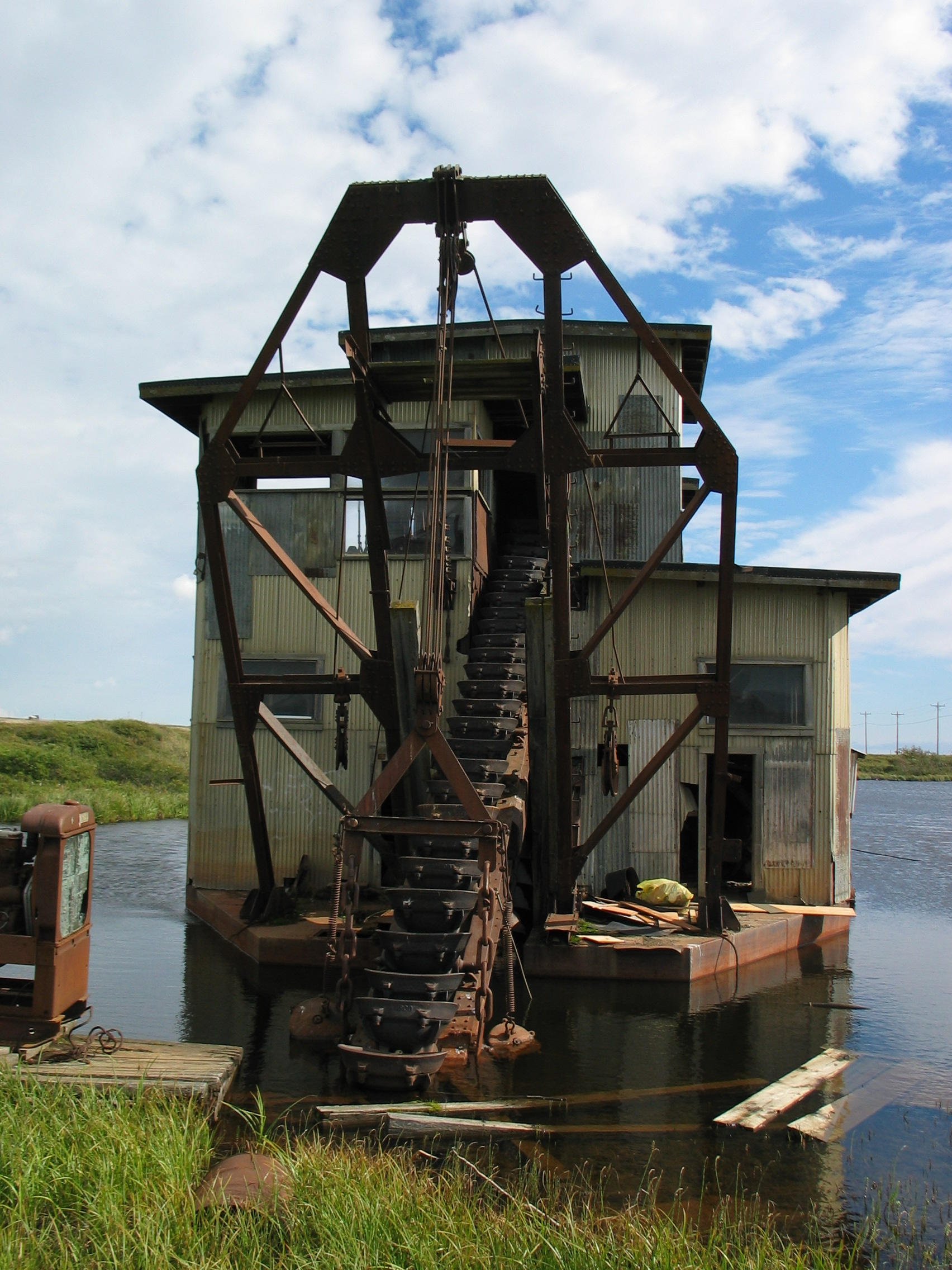 Gold Dredge in Nome. Brought up from San Francisco in 1906, it was only operated for one year.